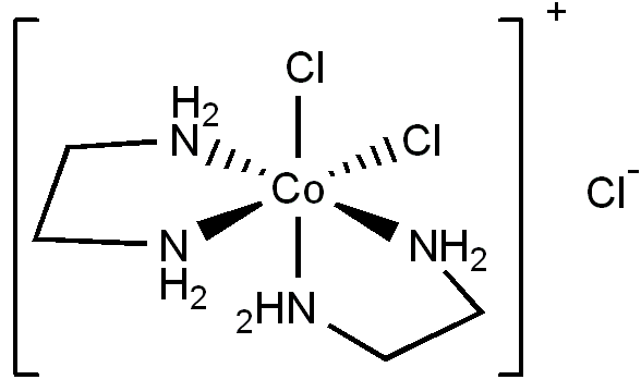 chemical structure of cis-dichlorobis(ethylenediamine)cobalt(III) chloride